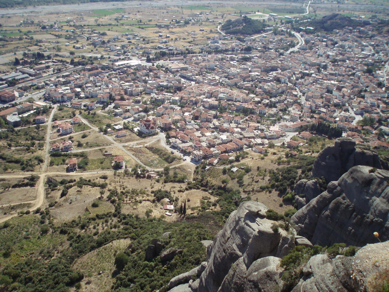 The town of Kalambaka, Thessaly, Greece as seen from Meteora.